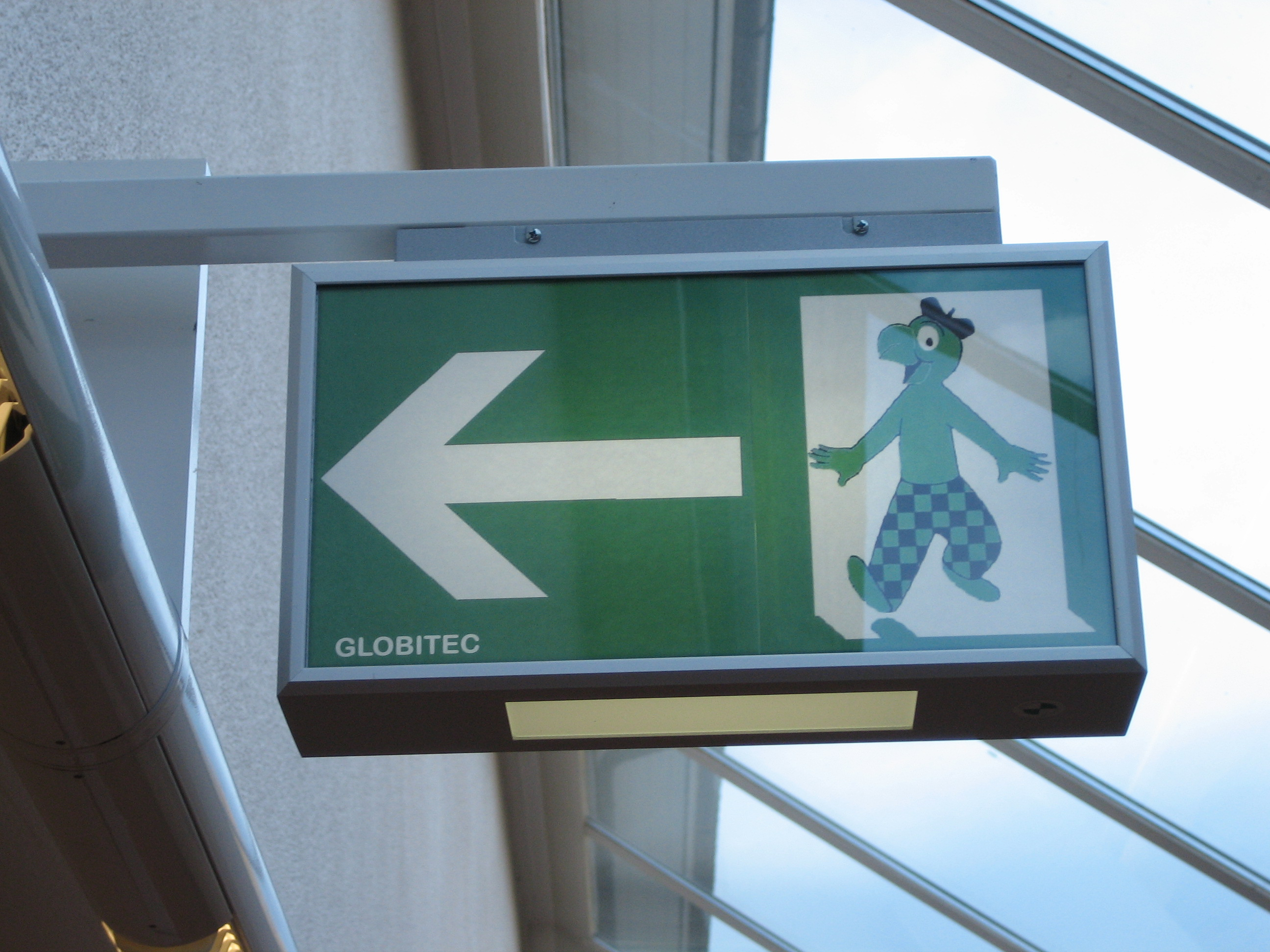 Emergency light with Globi